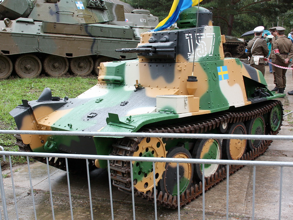 Swedish Strv m/37 tank in the Military Technical Museum Lešany.